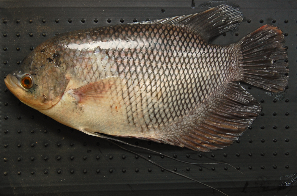 Osphronemus goramy, TL 295mm. Darmaga, Bogor, West Java.